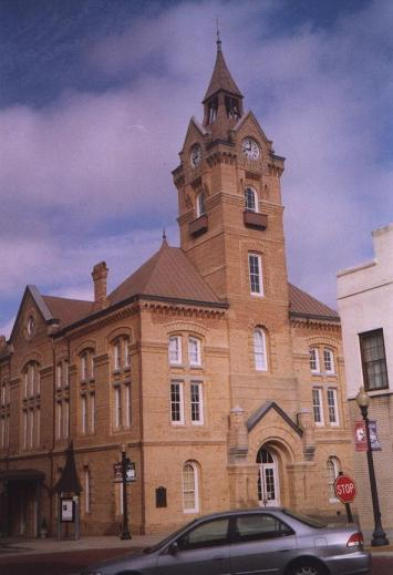 Newberry Opera House in Newberry, South Carolina